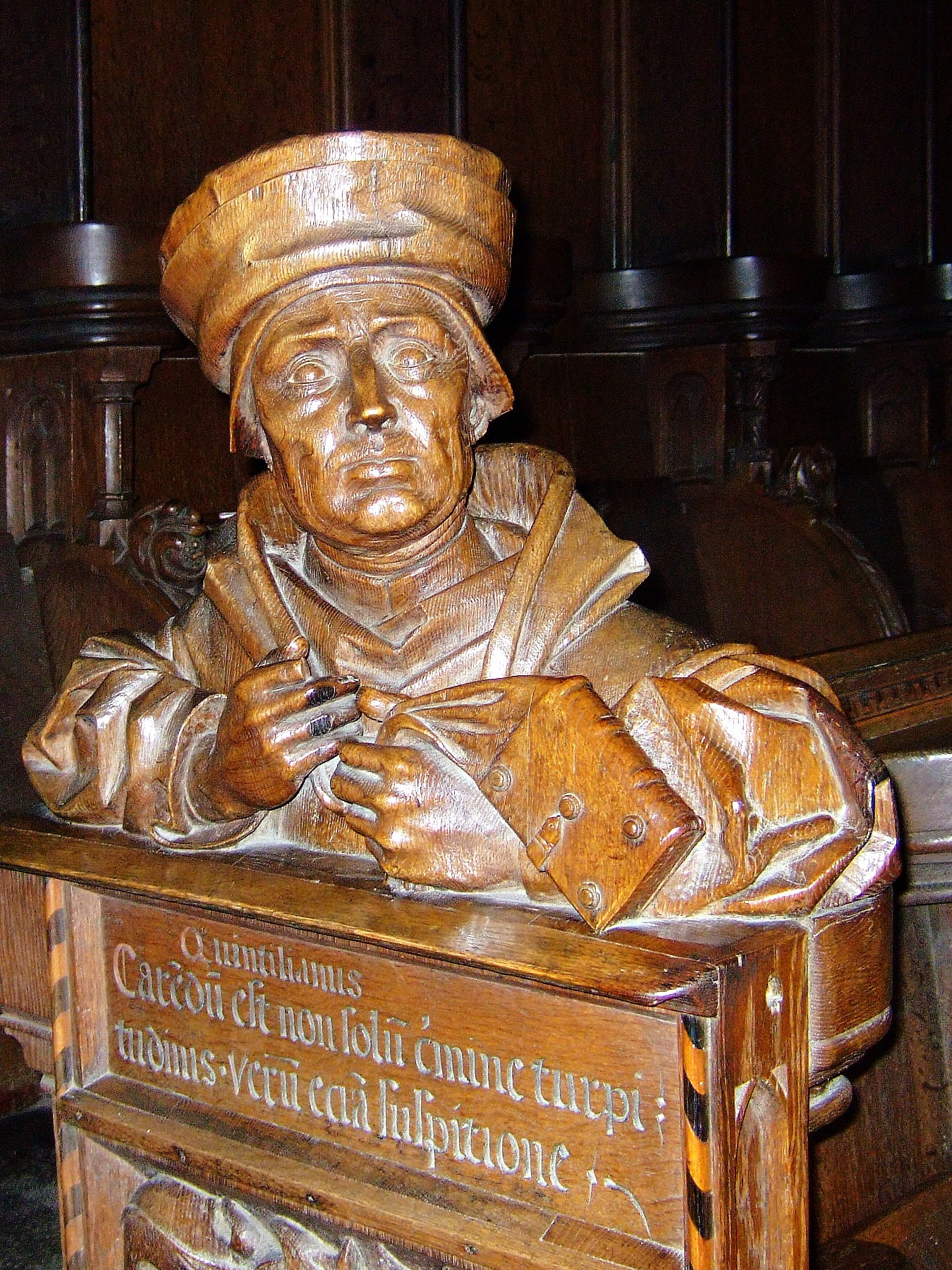 The Lutheran cathedral "Ulm Münster" of Ulm/Germany, carved brüste of Quintilian